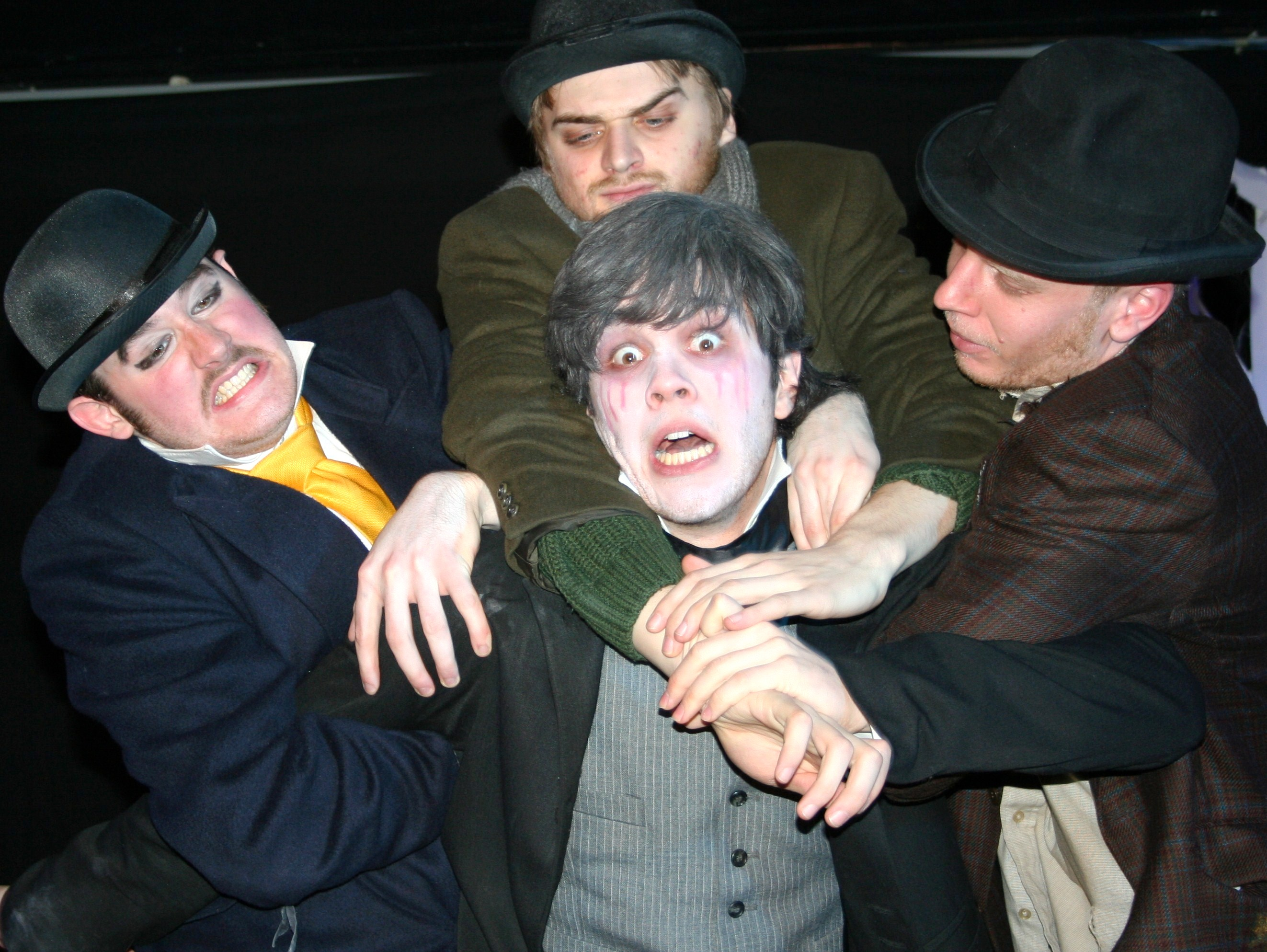 From Victoria College's production of Waiting For Godot. Lucky the slave gets tackled at the end of his famous monologue.